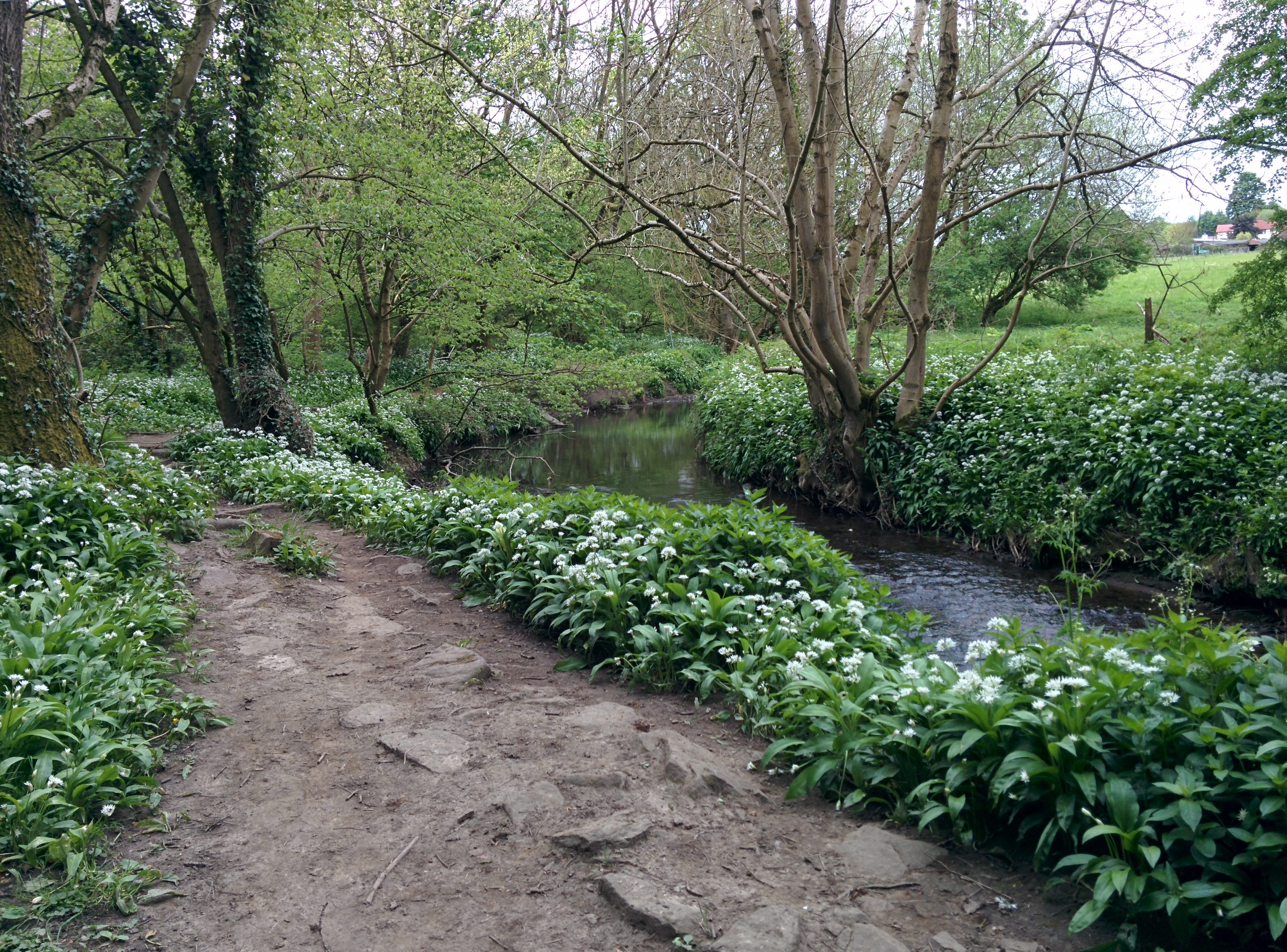 View of a track and stream in England, with woodland features of trees and wild plants. Flowering wild garlic is prominent.